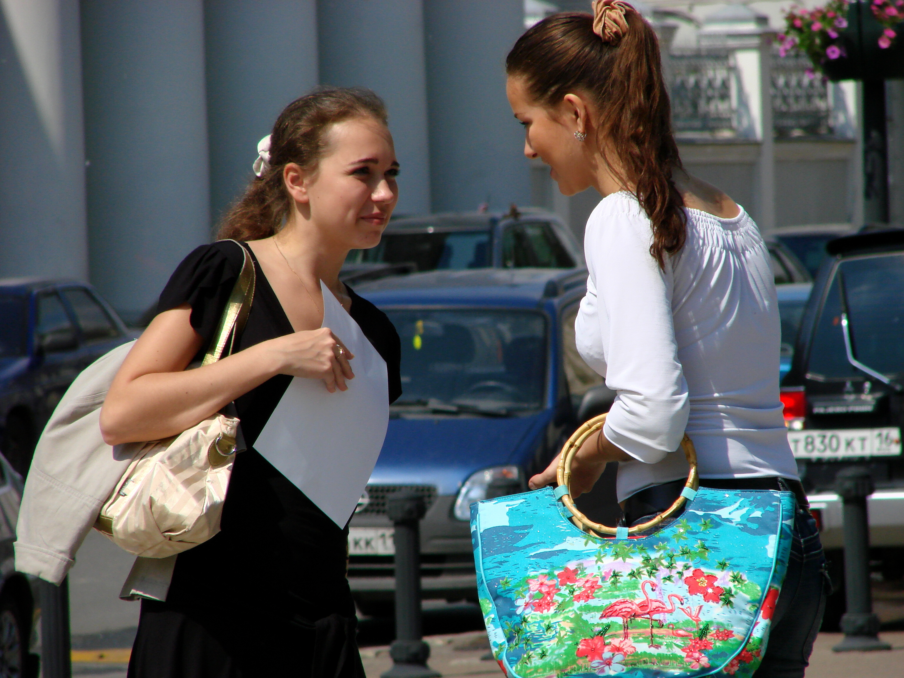 Young women in the street, outside Kazan University. Kazan, Russia. June 2008.